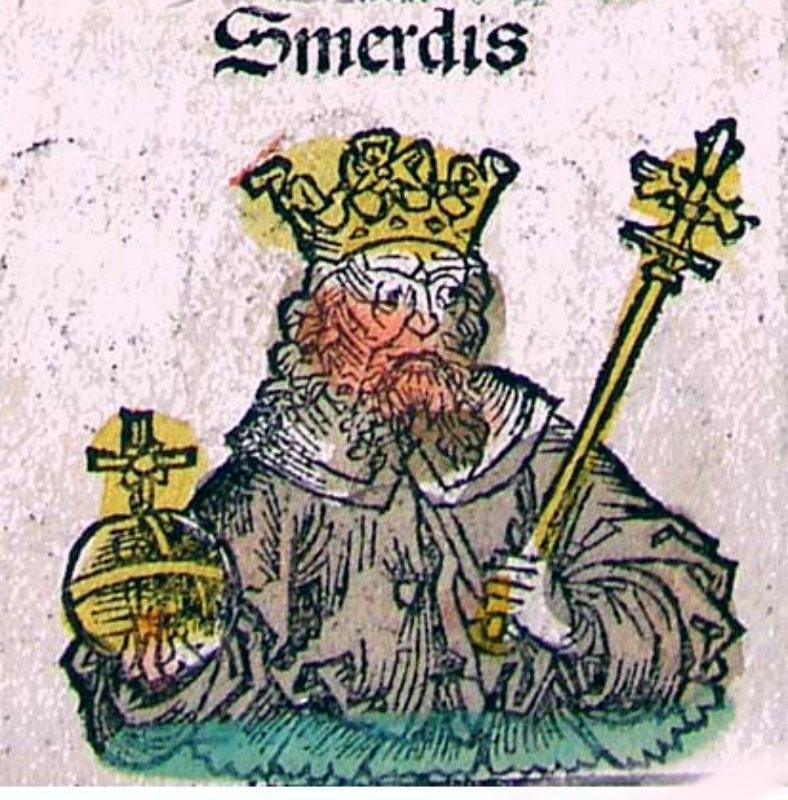 Smerdis, pretender to the Persian throne. Colored woodcut from a 1480 edition of the Polychronicon by Ranulf Higden, made by William Caxton.